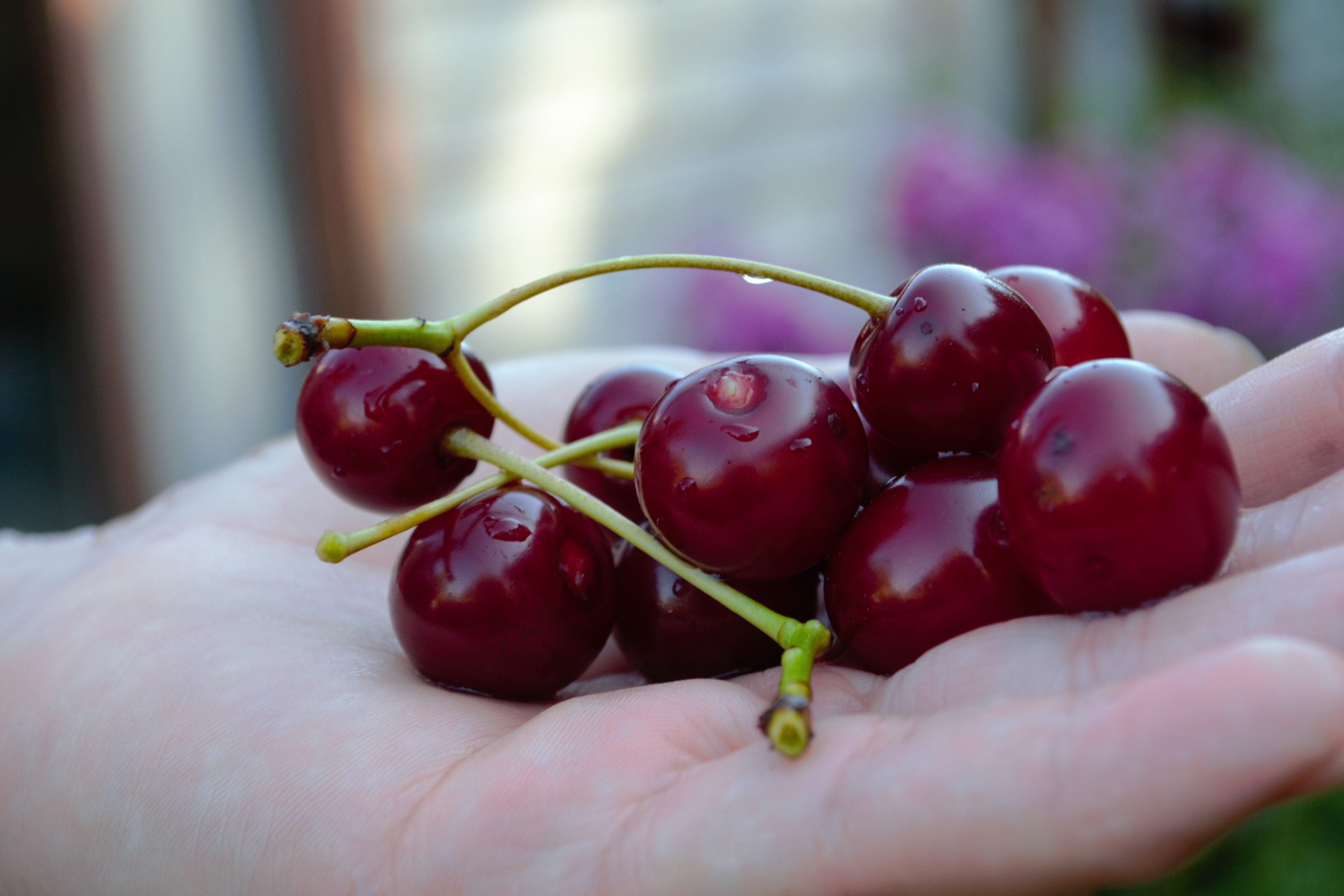 Guindas recién sacadas, Araucania